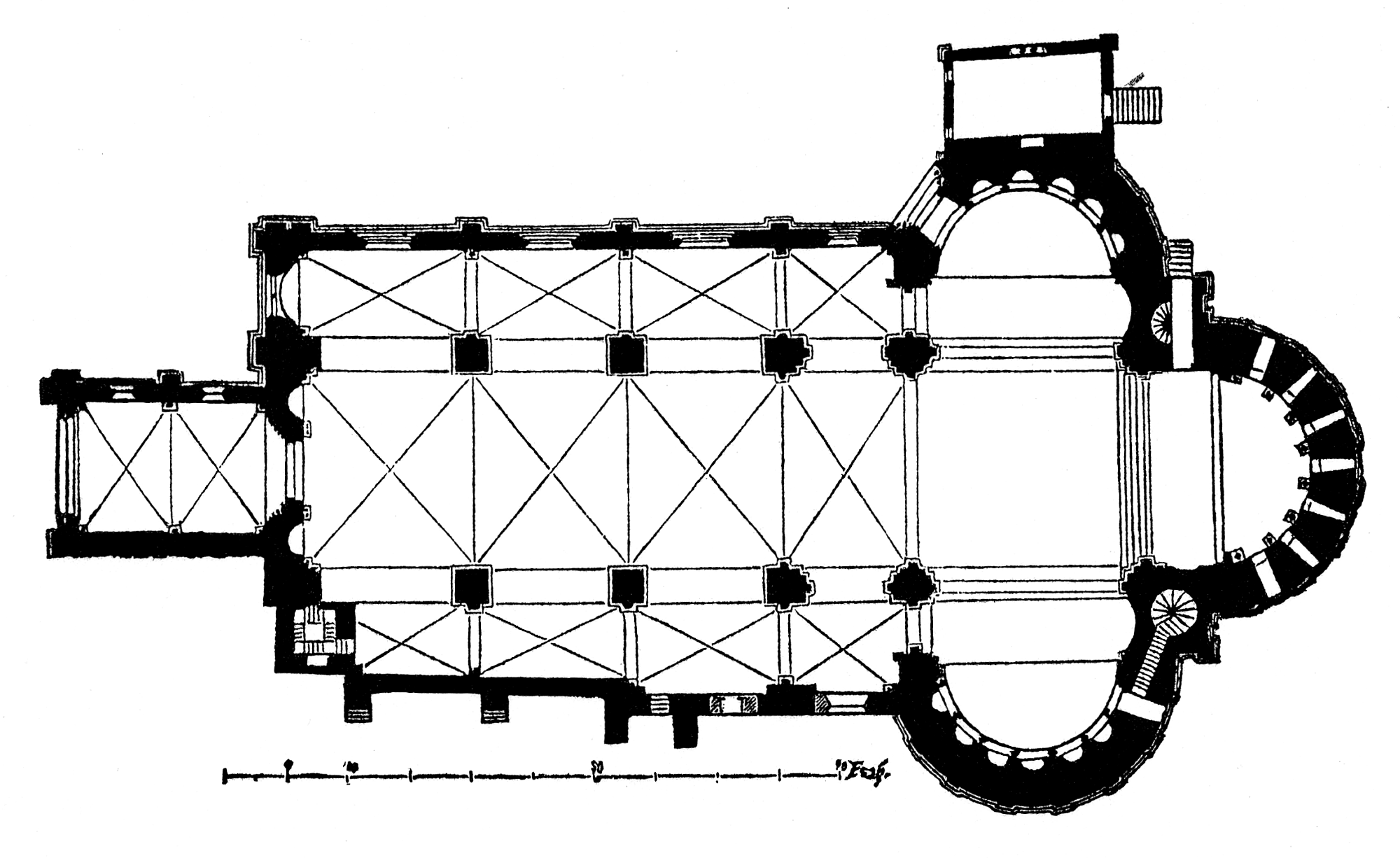 Ground plan of Groß St. Martin, Cologne